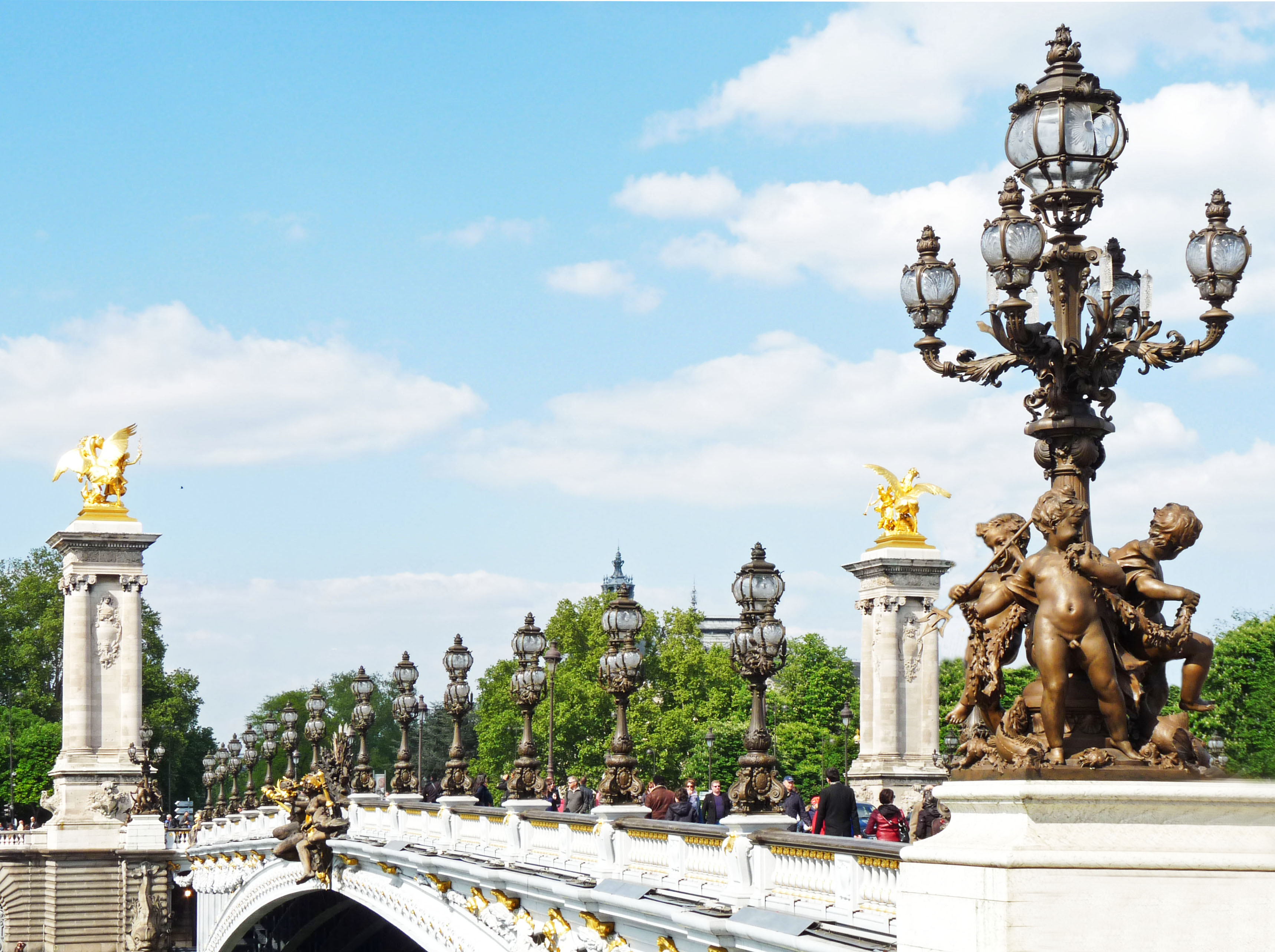 Street lights on Alexander bridge in Paris.